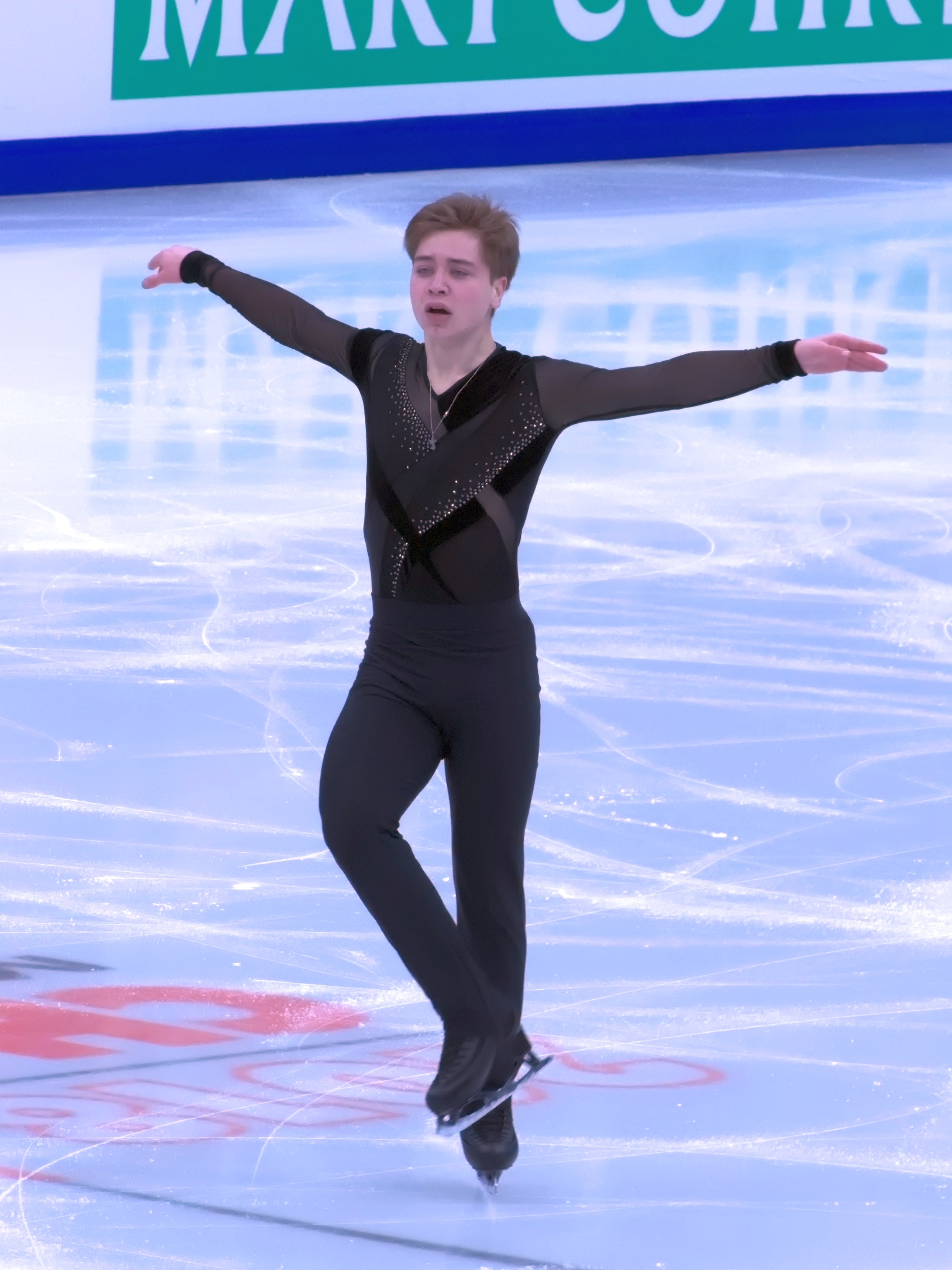 Daniel Albert Naurits (Estonia) at the 2018 European Figure Skating Championships in Moscow